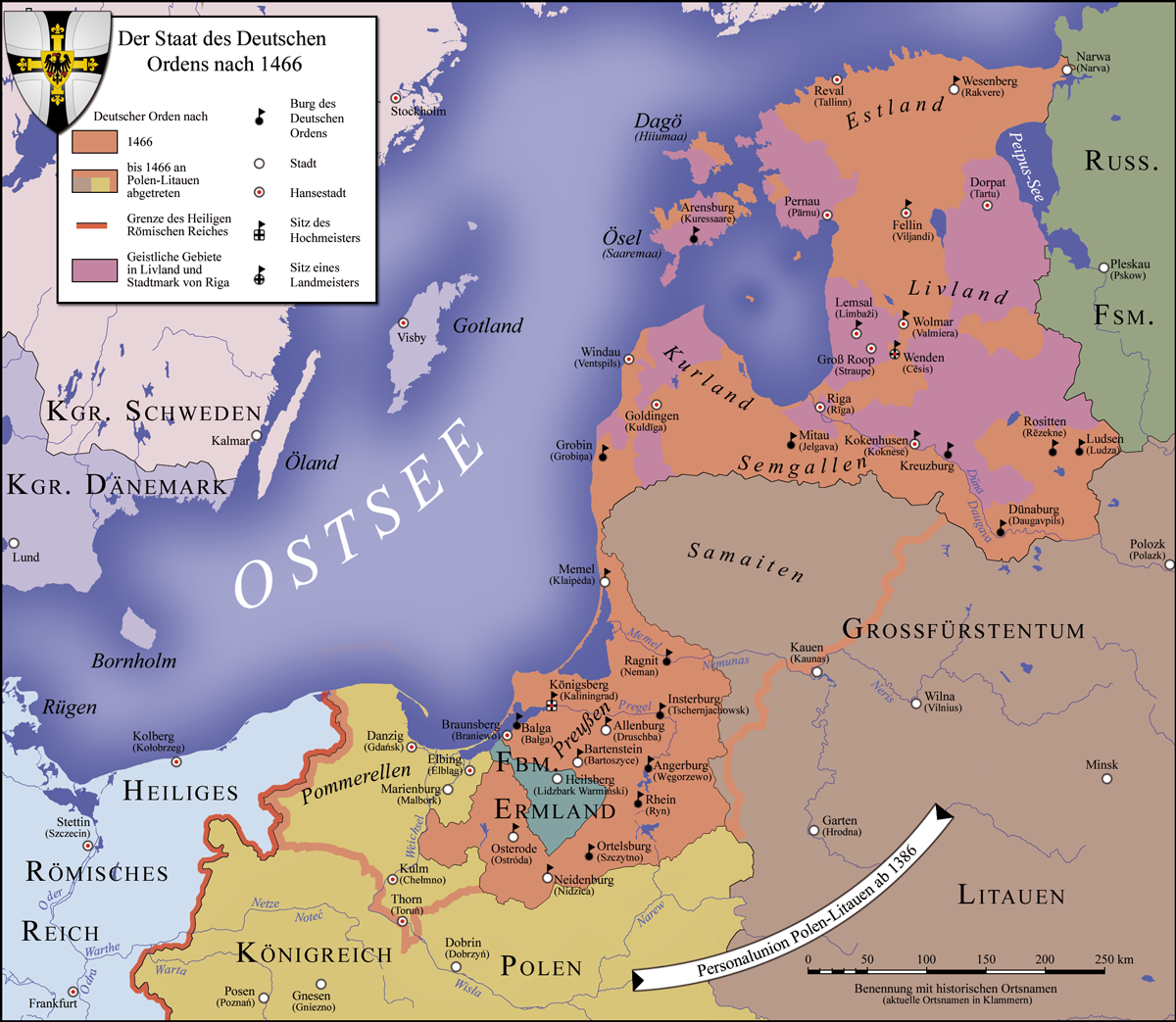 Map of the monastic state of the Teutonic Knights 1466.